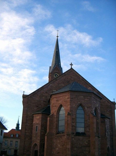 church building in Graben-Neudorf